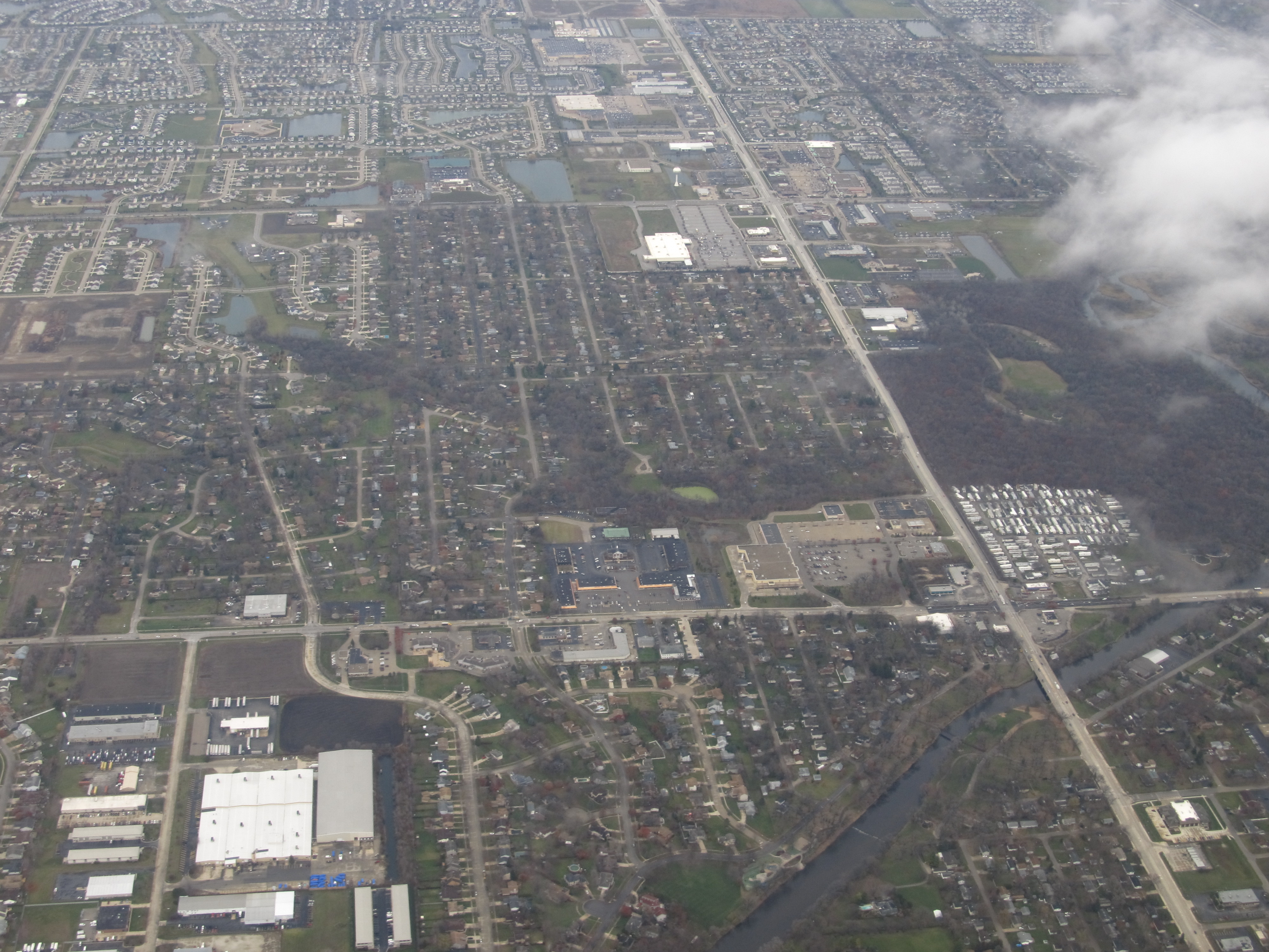 The DuPage River is a 28.3-mile-long (45.5 km) tributary of the Des Plaines River in the U.S. state of Illinois. The river begins as two individual streams. The West Branch of the DuPage River, 35.0 miles (56.3 km) long, starts in Schaumburg at Campanelli Park in Cook County and continues southward through the entire county of DuPage, including the towns of Bartlett, Wheaton, Warrenville, Winfield and Naperville (including through its riverwalk). The East Branch of the DuPage River, 25.0 miles (40.2 km) long, begins in Bloomingdale and flows southward through Glendale Heights, Glen Ellyn, Lisle, Woodridge, parts of Naperville and parts of Bolingbrook. The two branches meet at a spot between Naperville and Bolingbrook. The combined DuPage River continues southward from that point, through Plainfield and then west of Joliet, before finally meeting the Des Plaines River.